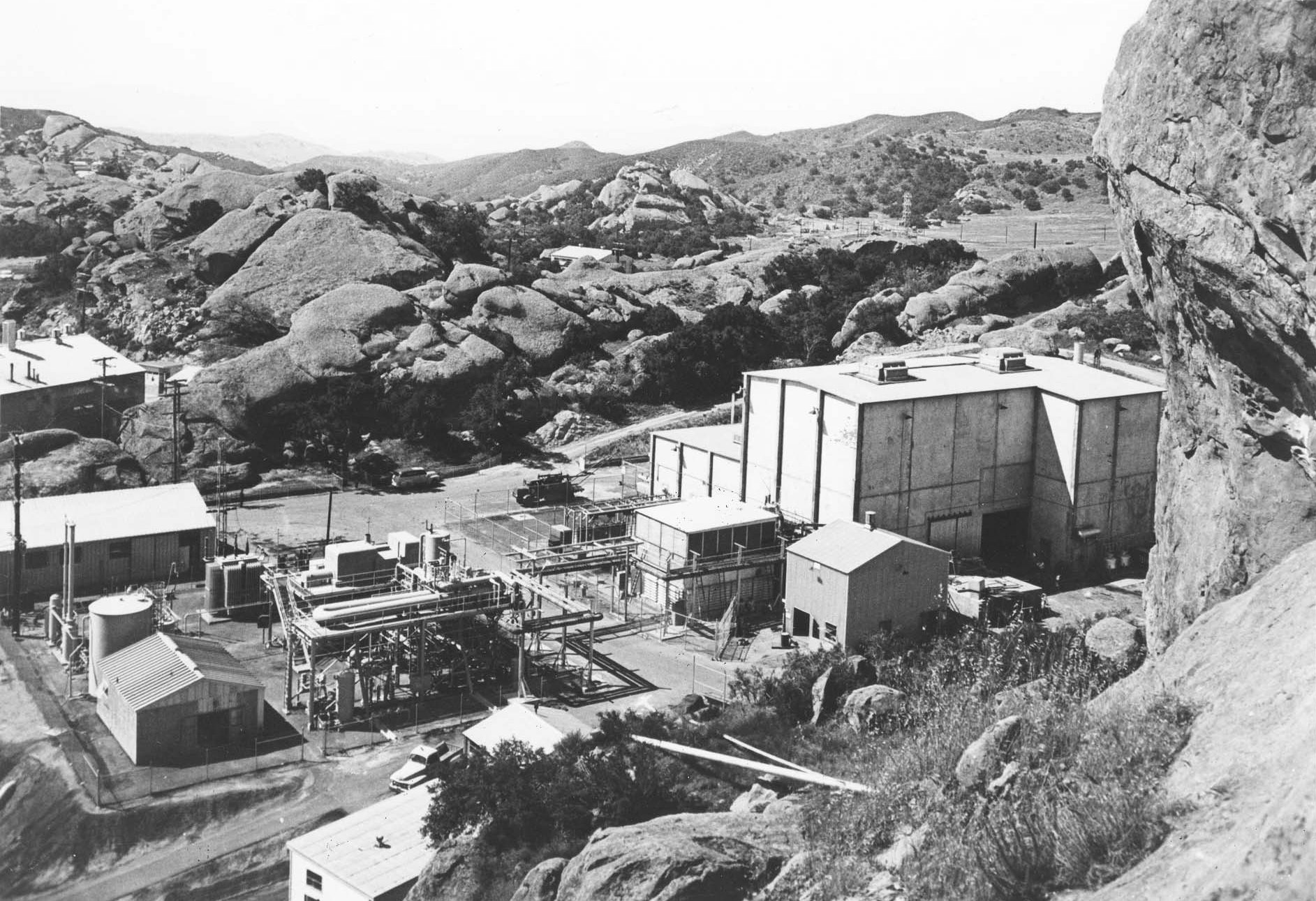 The Sodium Reactor Experiment (SRE) nuclear facility in 1958. The SRE was located at the Santa Susana Field Laboratory in Southern California, and operated 1957-1964. Set in the sandstone rock formations of the Simi Hills.